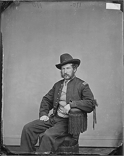 Capt. Edward P. Doherty, (John Wilkes) Booth's Captor